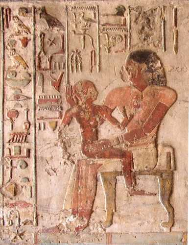 Prince Wadjmose seated on the lap of his tutor Paheri. Tomb of Paheri, El Kab